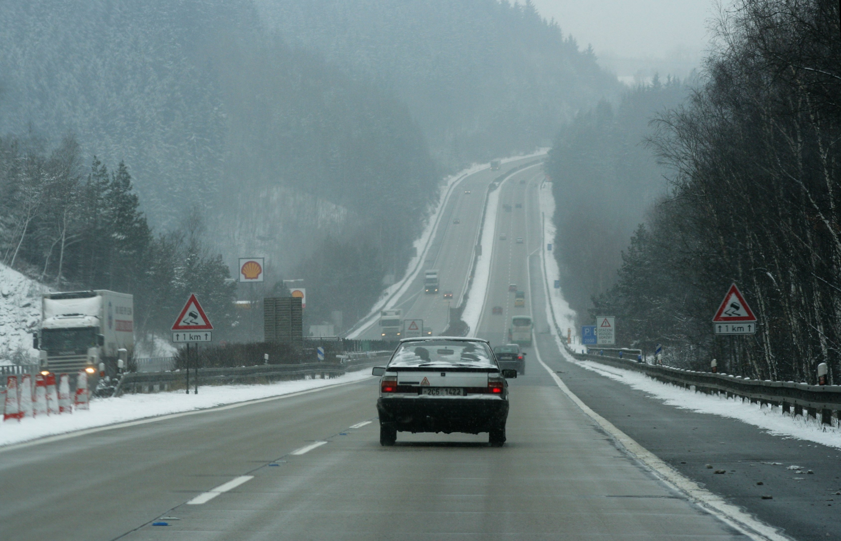 Czech highway D1 at Vysočina, about 44th kilometer, heading towards Prague.